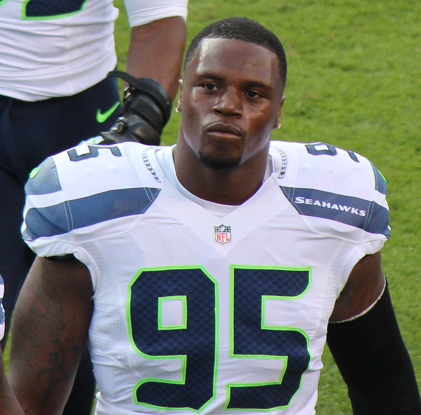 Pierre Allen, a player on the National Football League.